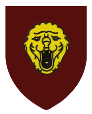 Insignia of the 1st Belgian army corps. Maroon shield with lion head facing.